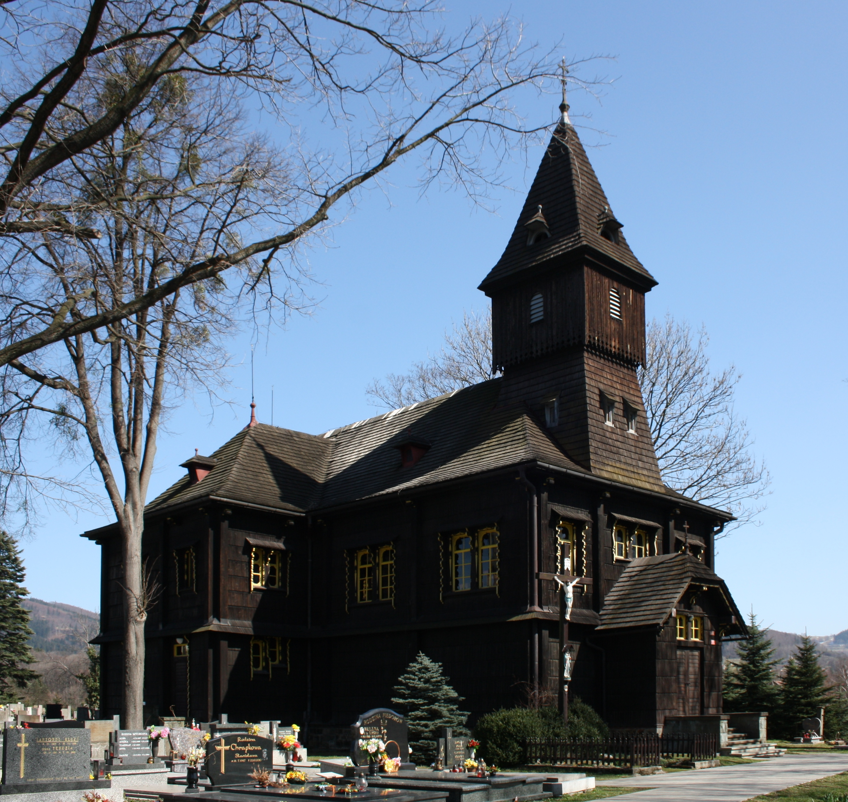 Church of Exaltation of the Cross in Bystřice, Frýdek-Místek District, Moravian-Silesian Region, Czech Republic